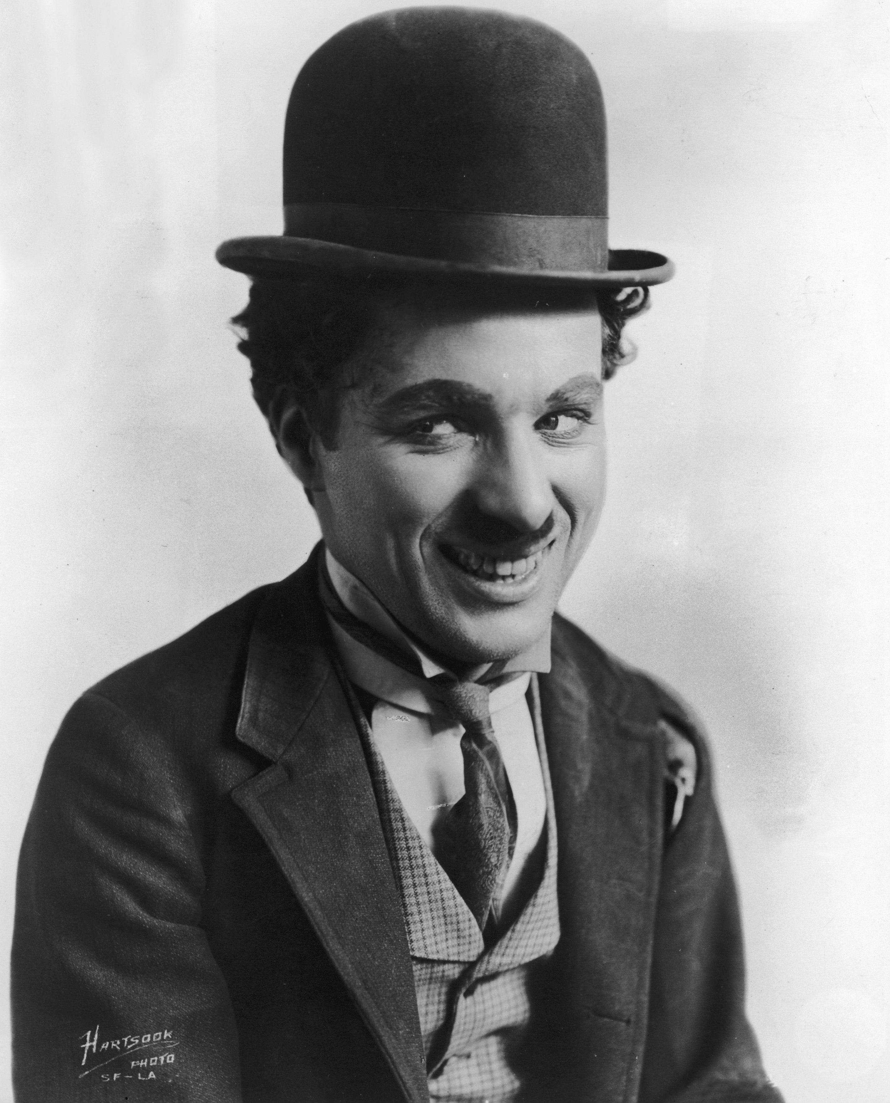 Charlie Chaplin The Tramp debuted in 1914 -- pre-1923 The Tramp was released on April 11, 1915 through Essanay Studios.